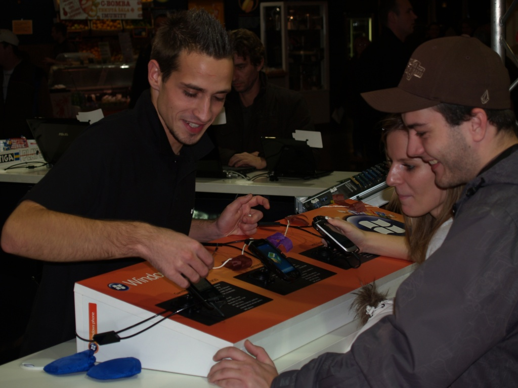 Promo campaign IT Kviz